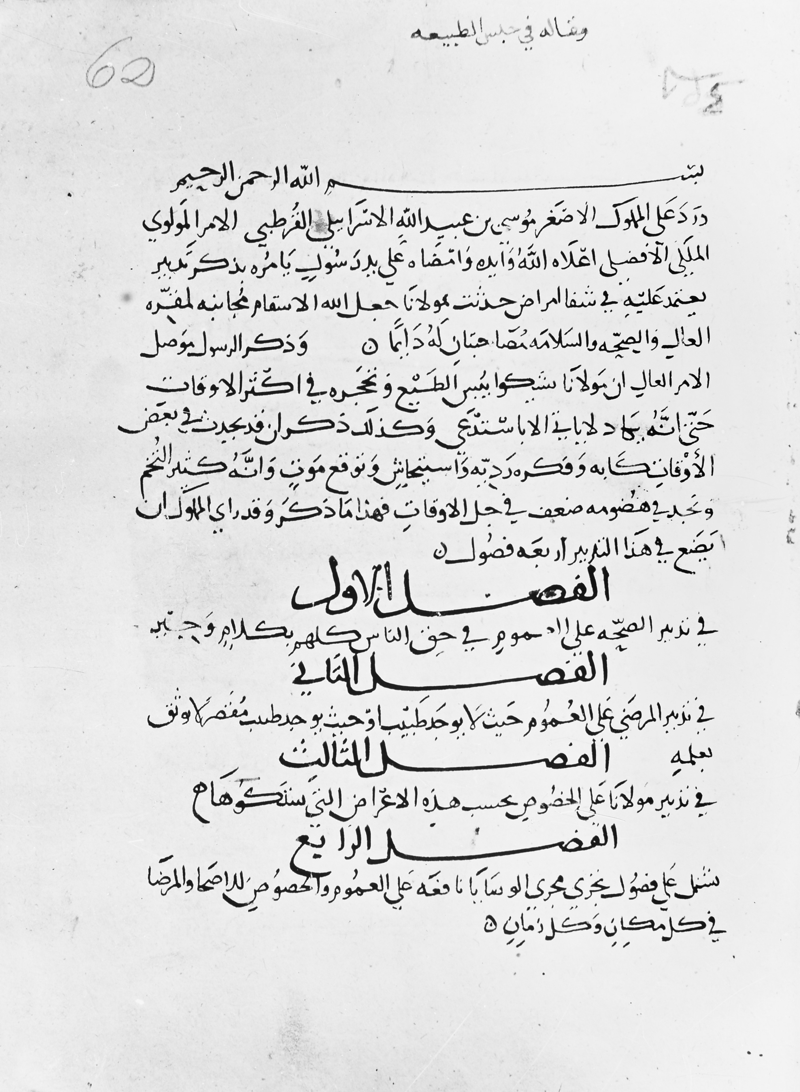 Tractatus de Regimine Sanitatis Wellcome Images Keywords: Moses Maimonides; Hygiene; History of Medicine; Sanitation